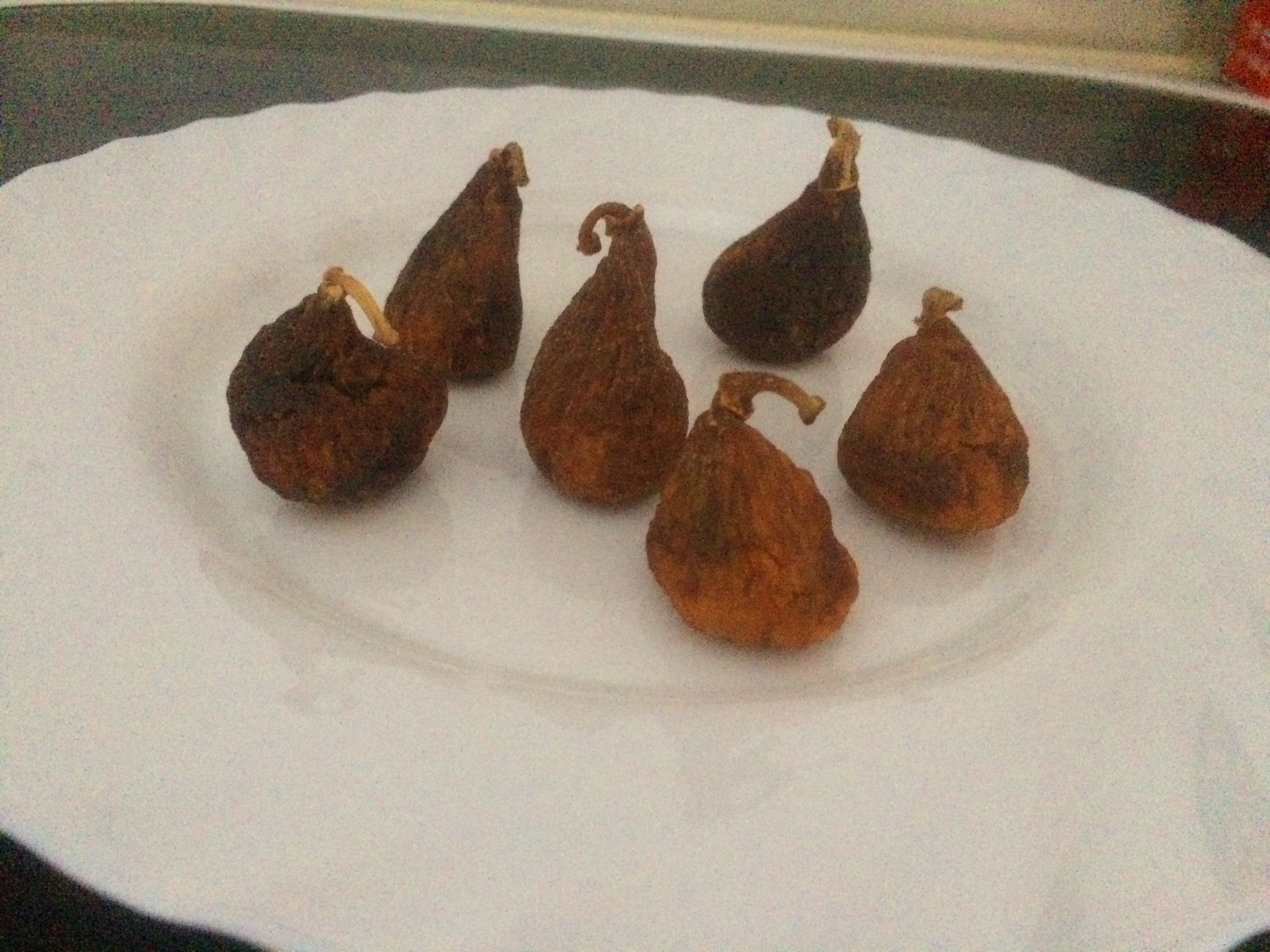 'Calabacita' dry figs (Extremadura)